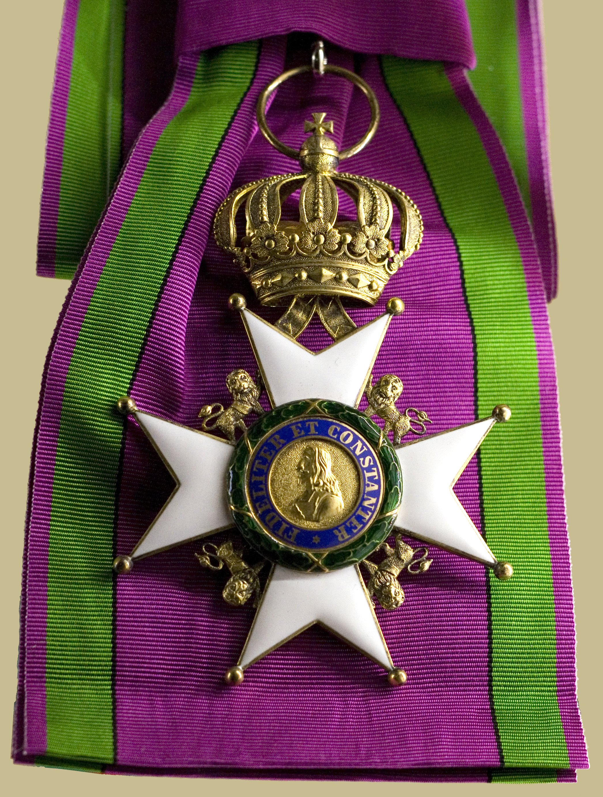 The Saxe-Ernestine House Order (Sachsen-Ernestinischen Hausorden) was the common order of the Thuringia duchies Saxe-Altenburg, Saxe-Coburg-Gotha and Saxe-Meiningen.